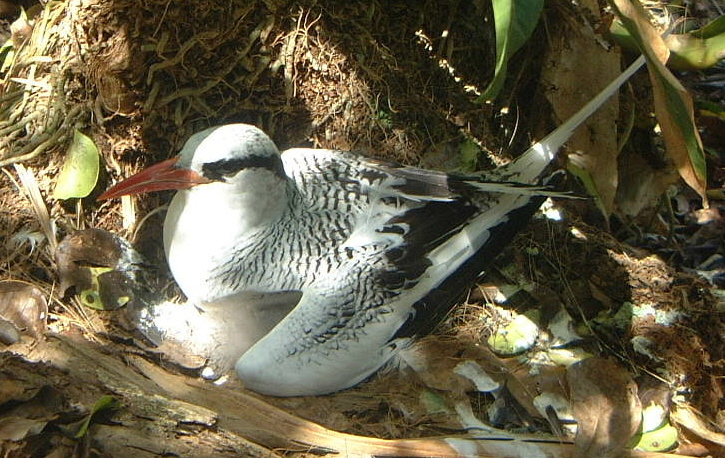 Red-billed Tropicbird, Phaethon aethereus, my photo from Little Tobago Island, Trinidad and Tobago